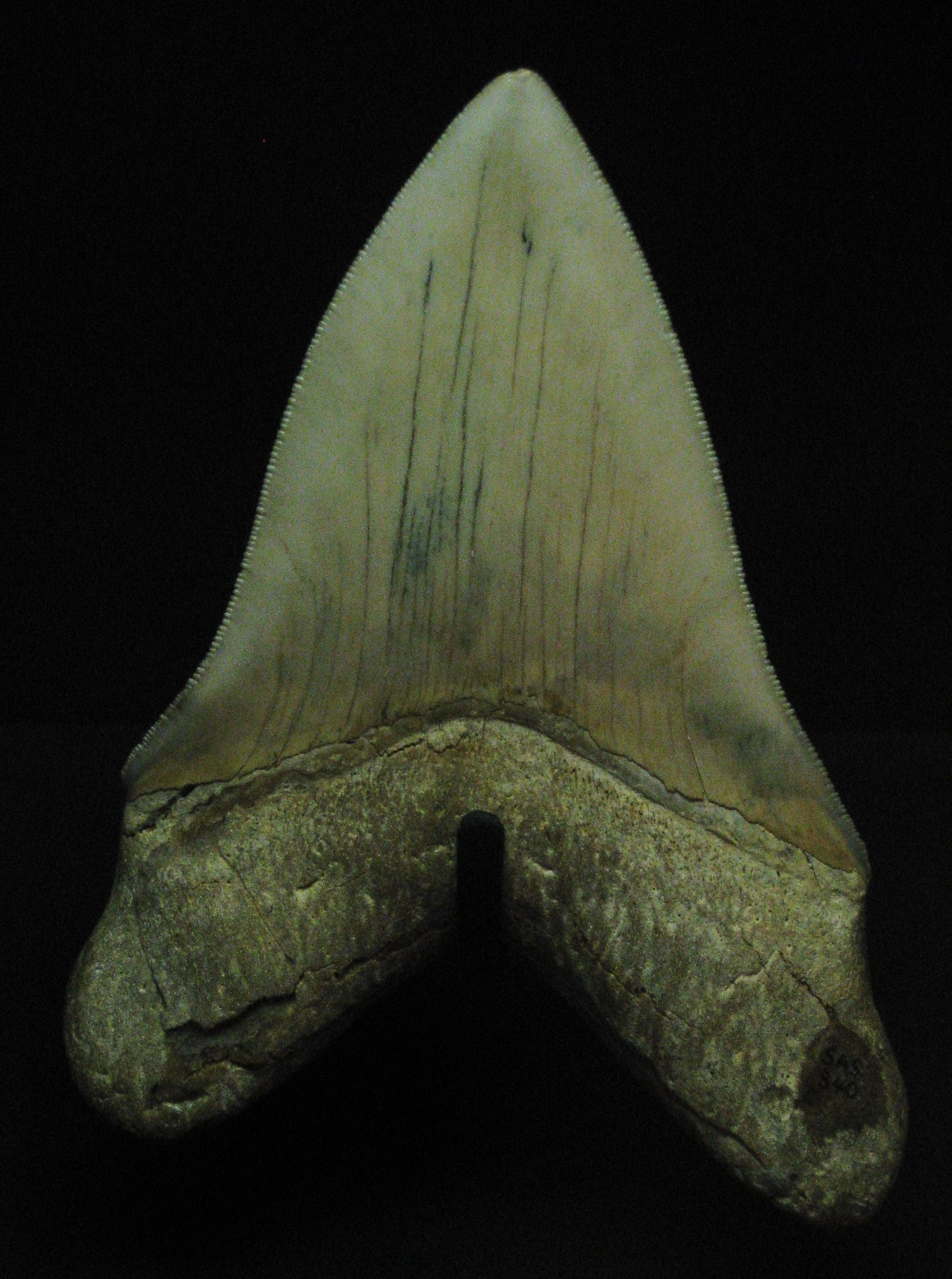 Megaselachus megalodon teeth in Exposition temporaire: Perles Megaselachus megalodon is the new name after Carcharodon megalodon then Procarcharodon megalodon then Carcharocles megalodon.